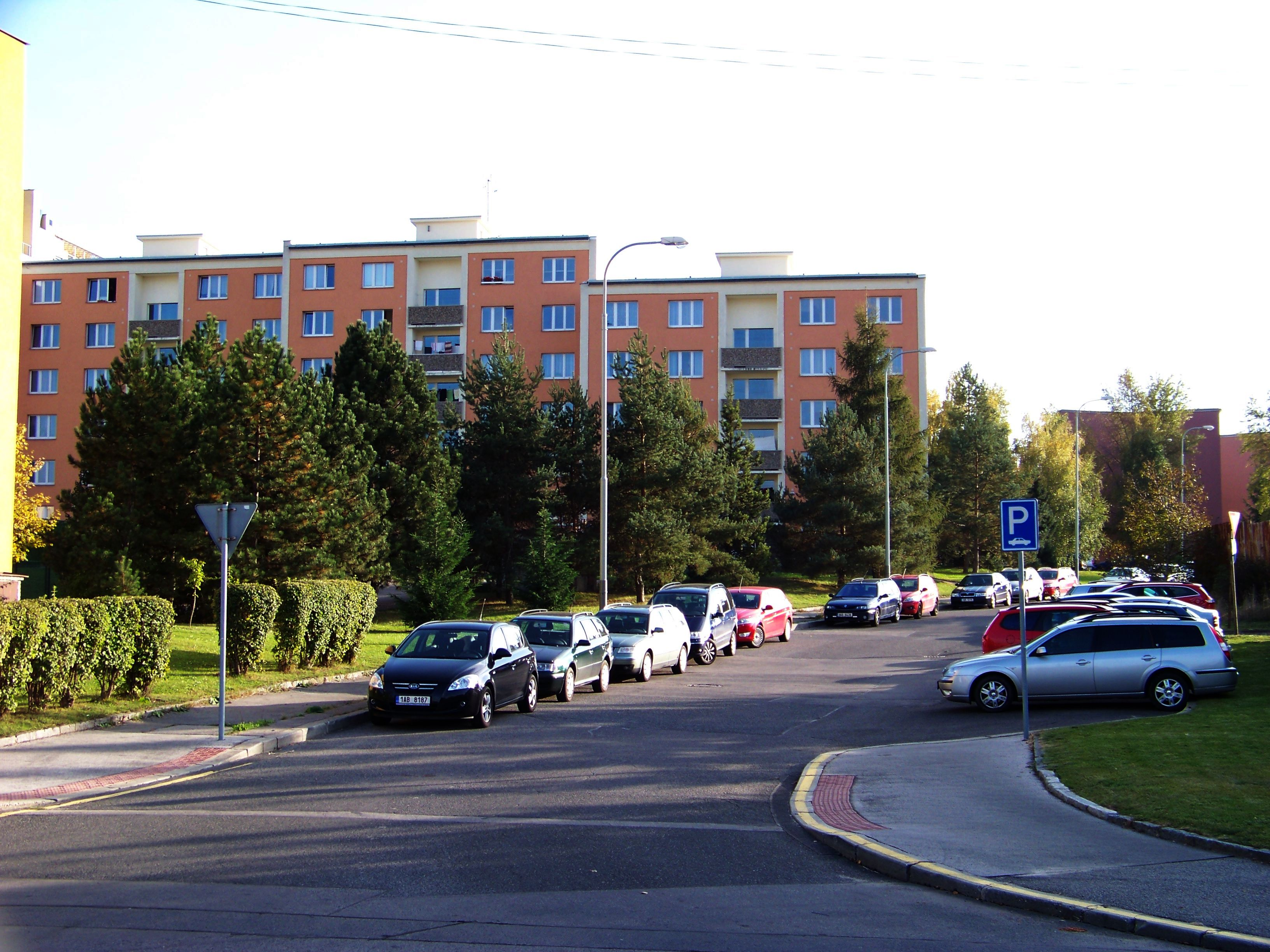 Prague-Hostivař, the Czech Republic. U průseku street. - OpenStreetMap(Info)